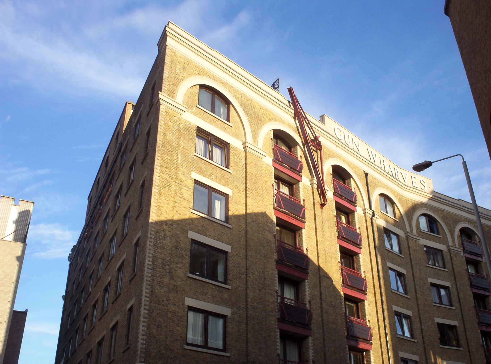 Gun Wharves, Wapping. Now home to luxury flats.